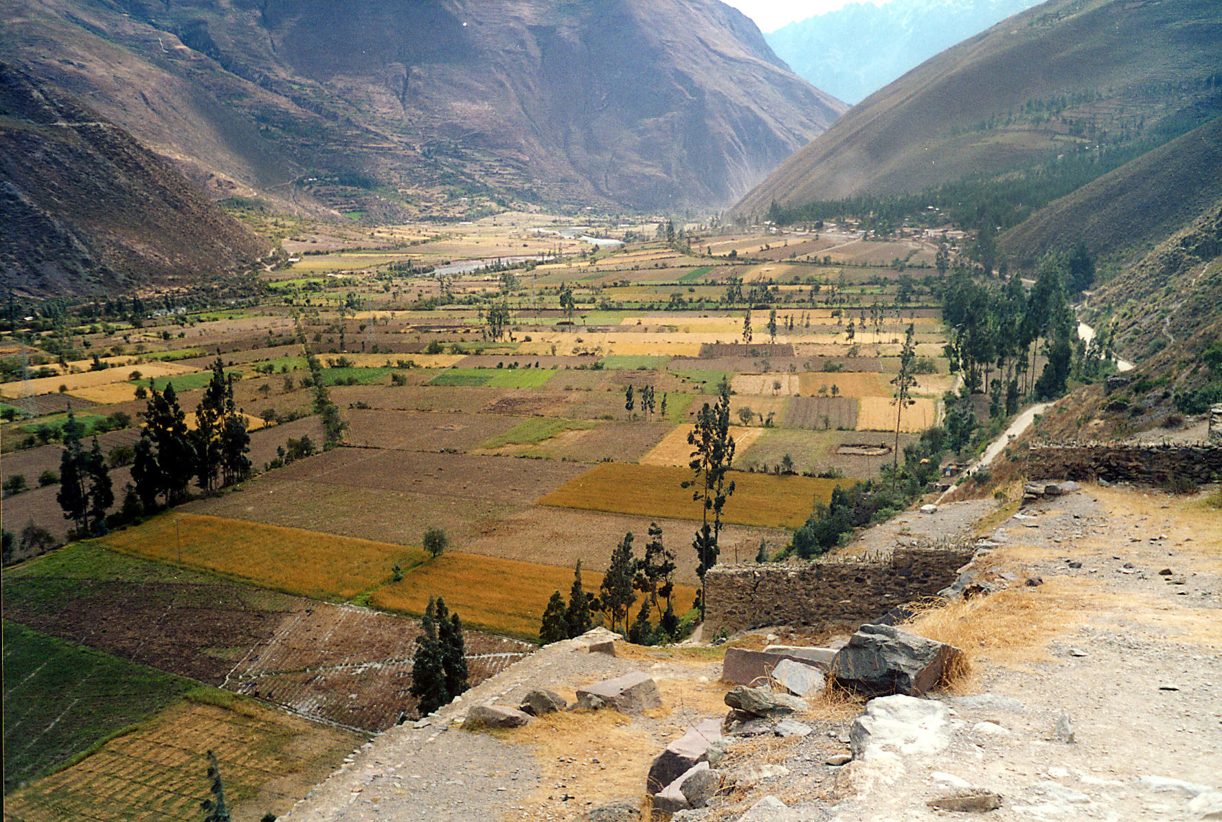 Ollantaytambo, Peru. The photo was taken in 2002 by Håkan Svensson (Xauxa).